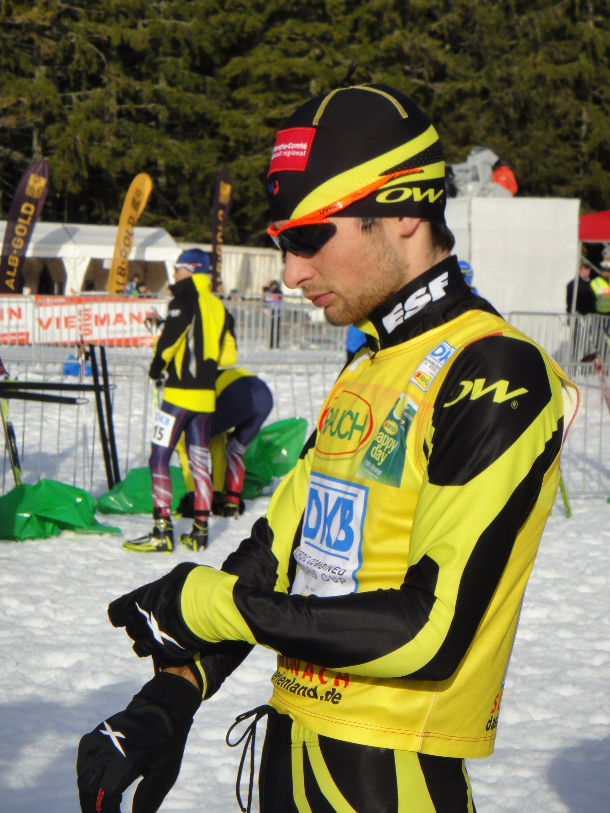 Jason Lamy-Chappuis, Schonach,2011 january 8.